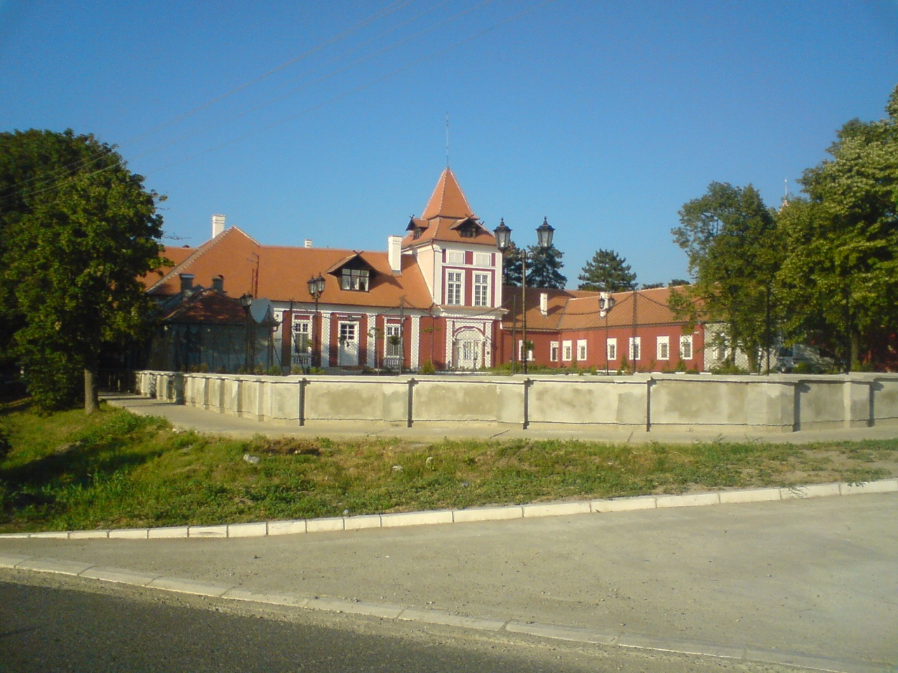 Castle in Ečka village, Serbia.